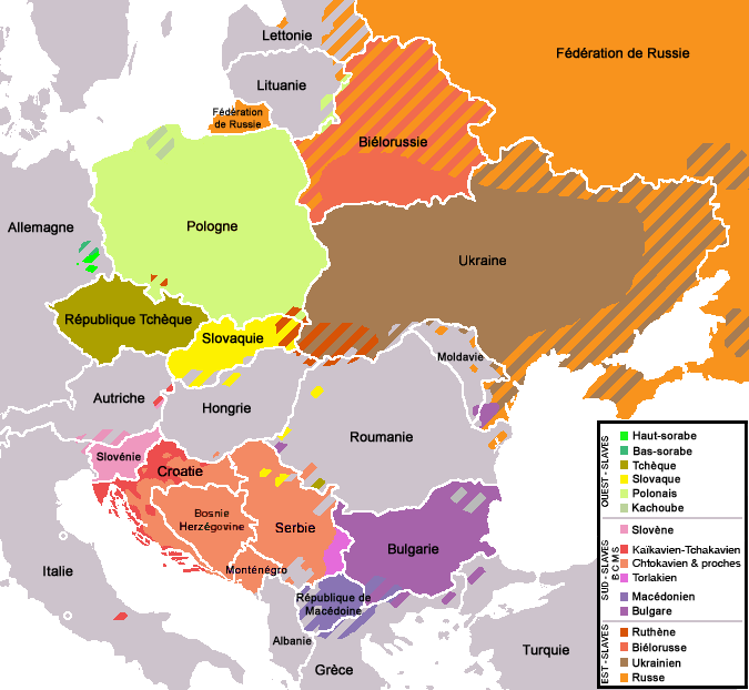 Map of Slavic languages in French.